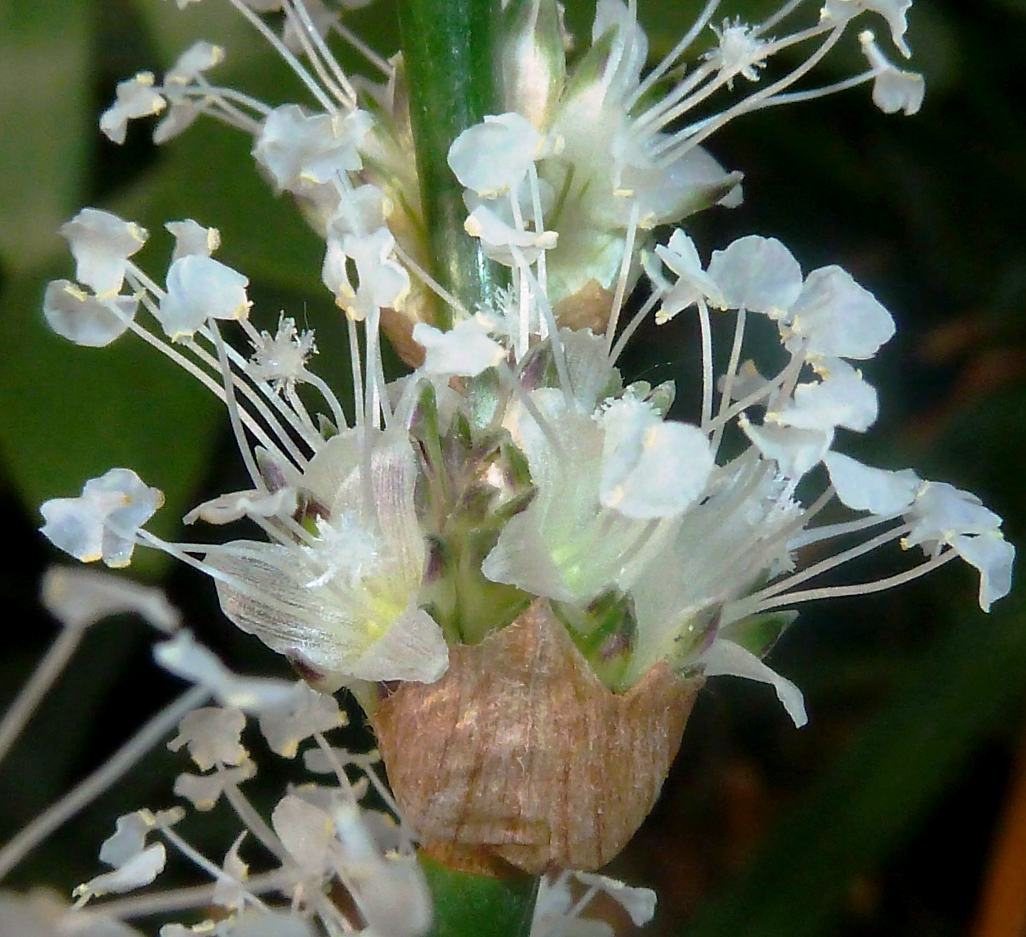 Inflorescence of a Basket plant in the Manie van der Schijff Botanical Garden in Pretoria